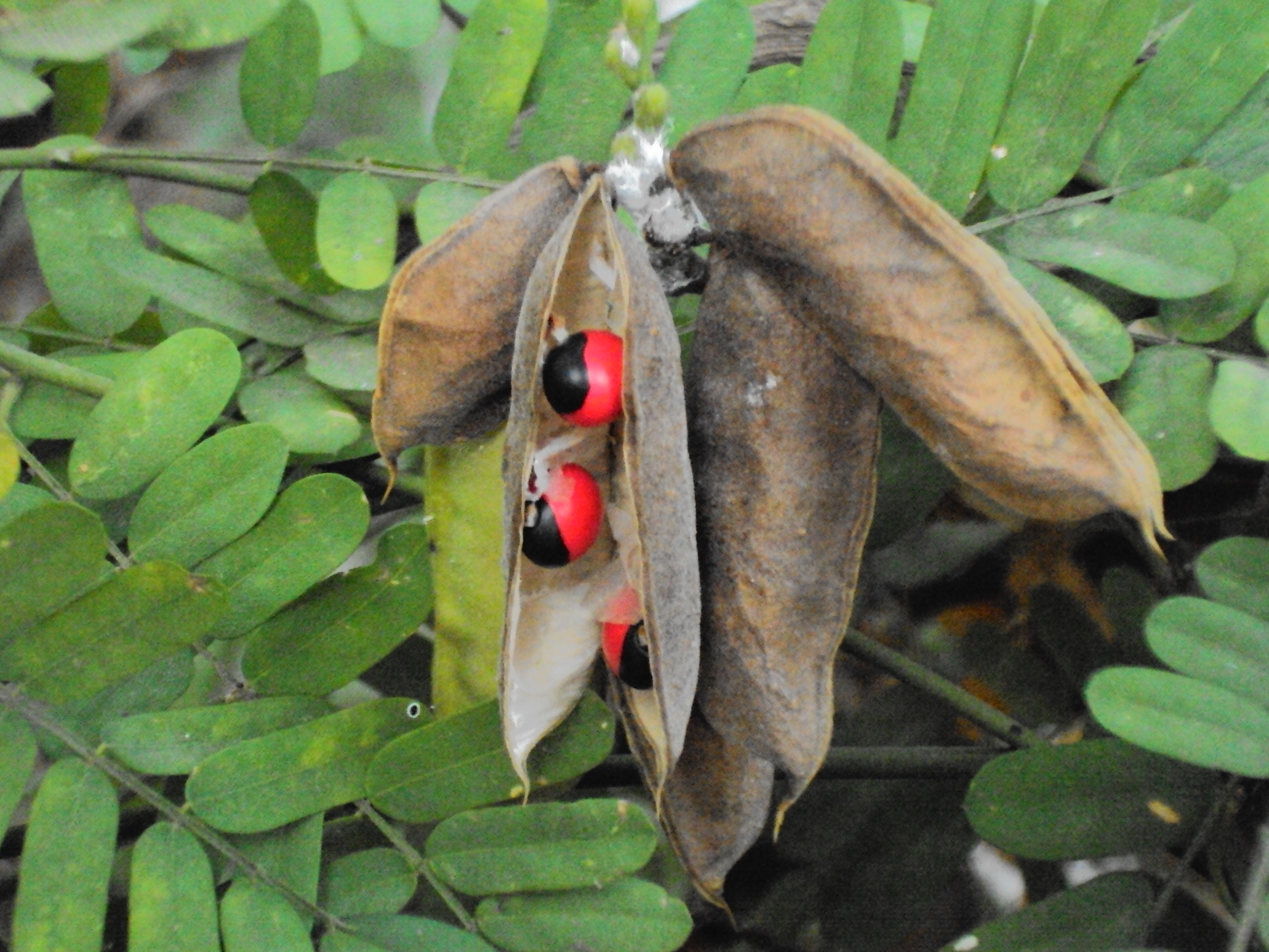 Abrus precatorius seeds